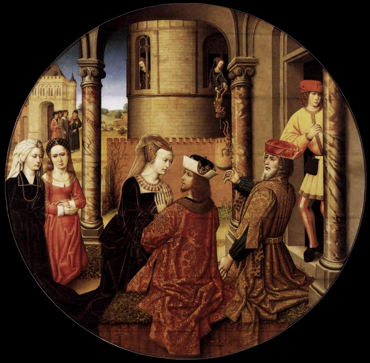 Asenath (or Asenith) is a figure in the Book of Genesis, an Egyptian woman whom Pharaoh gave to Joseph, son of Jacob, to be his wife. She bore Joseph two sons, Manasseh and Ephraim, who became the patriarchs of the Israelite tribes of Manasseh and Ephraim, respectively. Her story is elaborated in the apocryphal Joseph and Asenath. There, she is a virgin who rejects several worthy suitors in favour of Joseph, but Joseph will not have a pagan for a wife. She locks herself in a tower and rejects her idolatry in favour of Joseph's God Yahweh, and receives a visit from an angel who accepts her conversion. A ritual involving a honeycomb follows, and Joseph now consents to marry her.